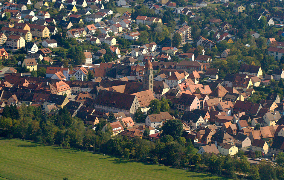 The monastery of Langenzenn.